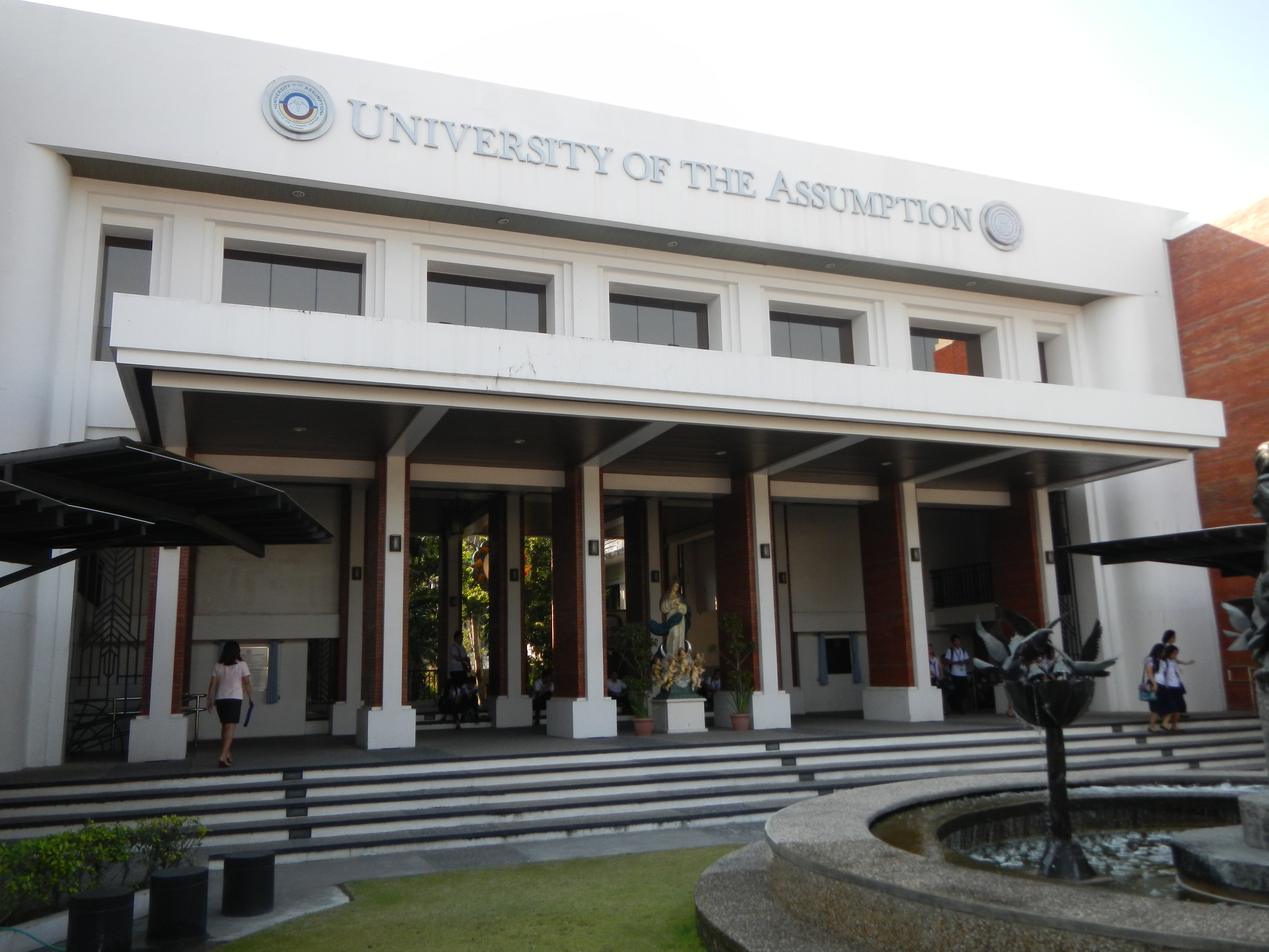 Upload Wizard photos of - a) Barangay Del Pilar, San Fernando, Pampanga[1] --- University of the Assumption [2] is a private Archdiocesan Catholic university located in the City of San Fernando, Pampanga, Philippines founded on January 12, 1963; Website Unisite Subd., Del Pilar City of San Fernando, Pampanga 2000 Philippines The Msgr. Guerrero building which houses the University Chapel beside the Archdiocesan Museum and Archives of the Archdiocese of San Fernando housed at the University of the Assumption, 3rd and 4th floors and bear it in Barangay San Jose, City of San Fernando is the b) Archdiocesan Chancery [3]Diocesan chancery [4] is a heritage house in the City of San Fernando, Pampanga. It was the former residence of Luis Wenceslao Dison and Felisa Hizon that was purchased by the Roman Catholic Archdiocese of San Fernando[5] Archidioecesis Sancti Ferdinandi San Fernando, Pampanga now being used as the Archdiocesan Chancery - Nuestra Senora de la Virgen de los Remedios under Paciano Aniceto [6] preceded by Oscar Cruz[7] Most Rev. Cesar Maria Guerrero, D.D. - was the founder of "Virgen de los Remedios & Santo Cristo del Perdon" Crusade.